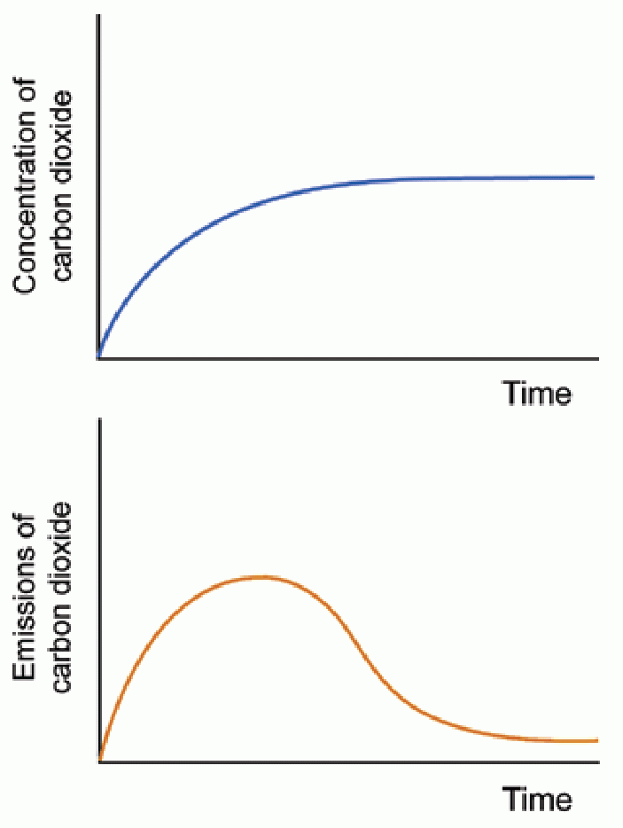 The image shows how stabilizing the atmospheric concentration of carbon dioxide at a constant level would require carbon dioxide emissions to be effectively eliminated. The graph on the bottom shows a substantial reduction in carbon dioxide emissions from their present level over time. Carbon dioxide emissions peak then decline to a fraction of their current level. The graph on the top shows how this reduction would lead to the atmospheric concentration of carbon dioxide being stabilized at a constant level.